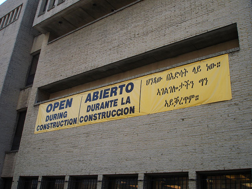 Photo of a sign in Columbia Heights, Washington, DC